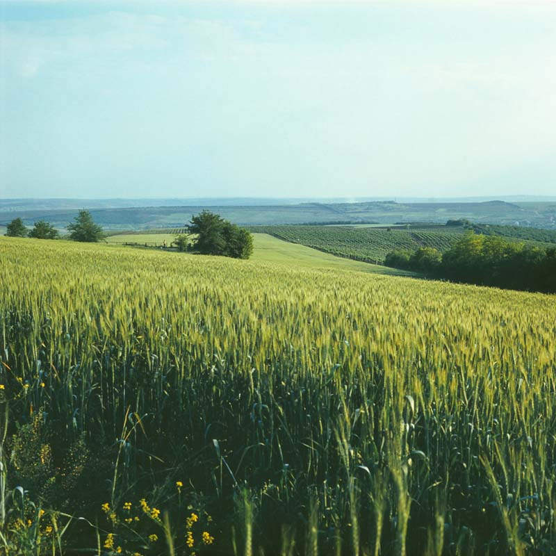 Near the park Cohan (1980)